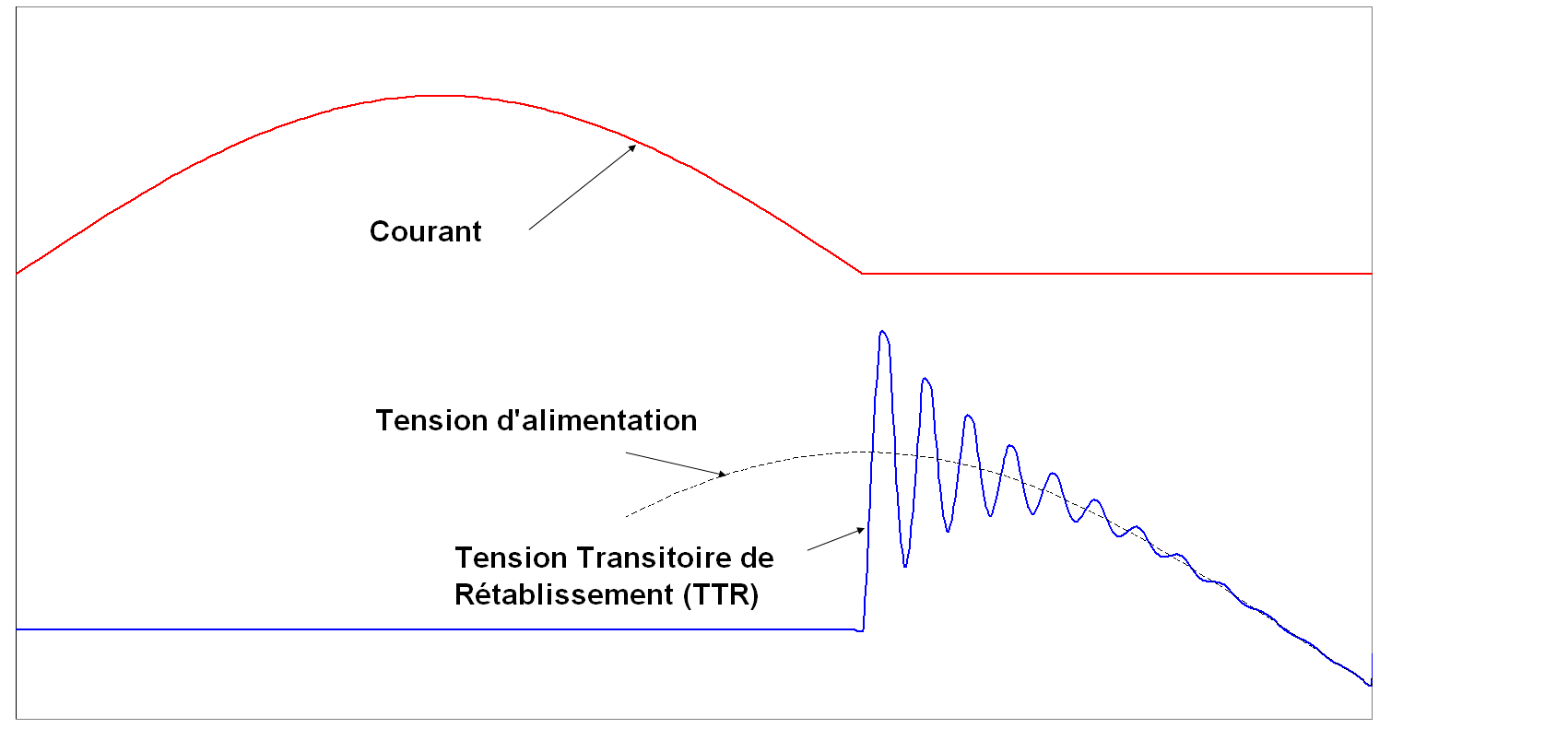 Current and transient recovery voltage